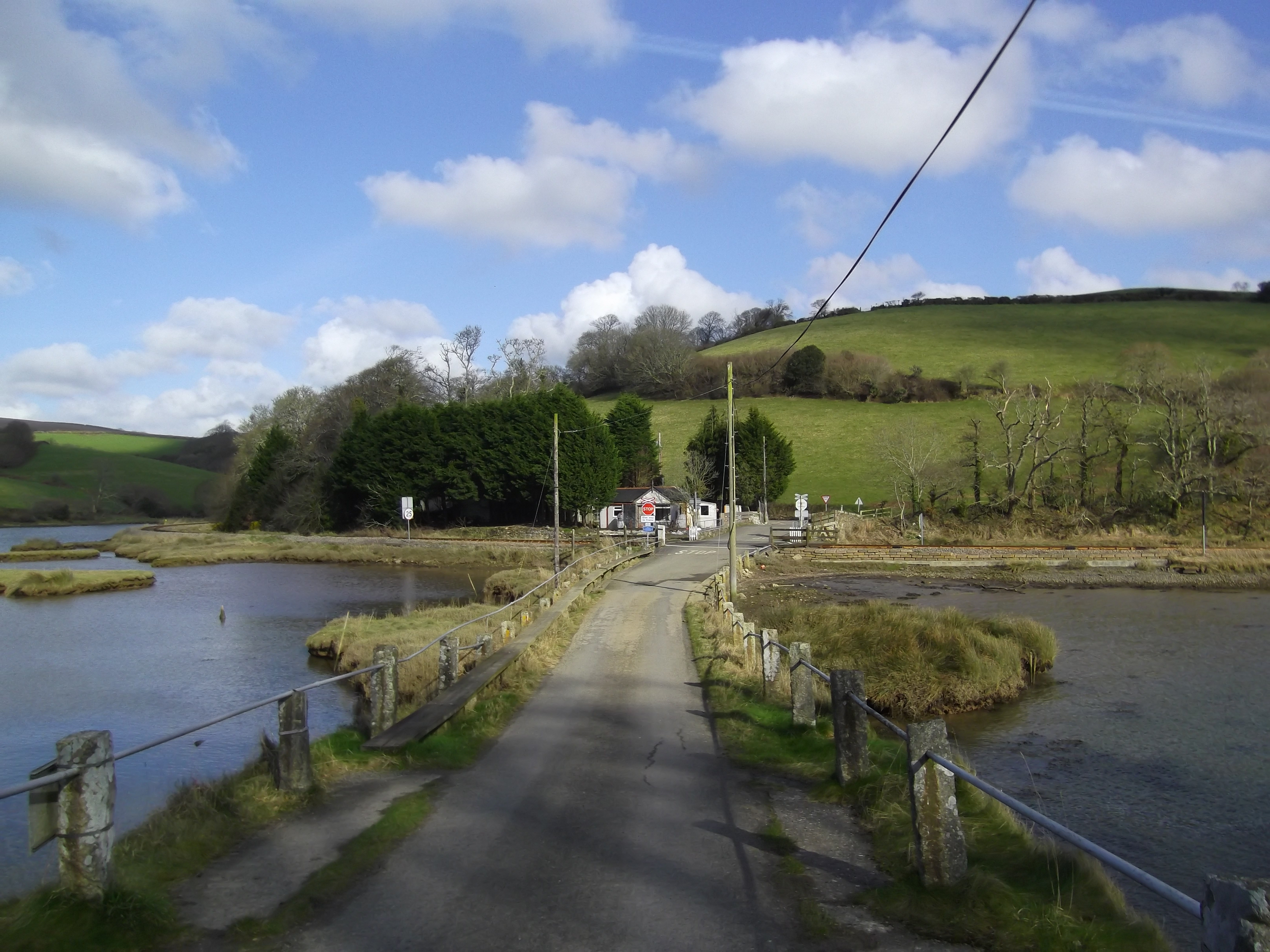 A view of Terras level crossing on the Liskeard to Looe railway line, a short distance above Looe, taken from the causeway and looking east